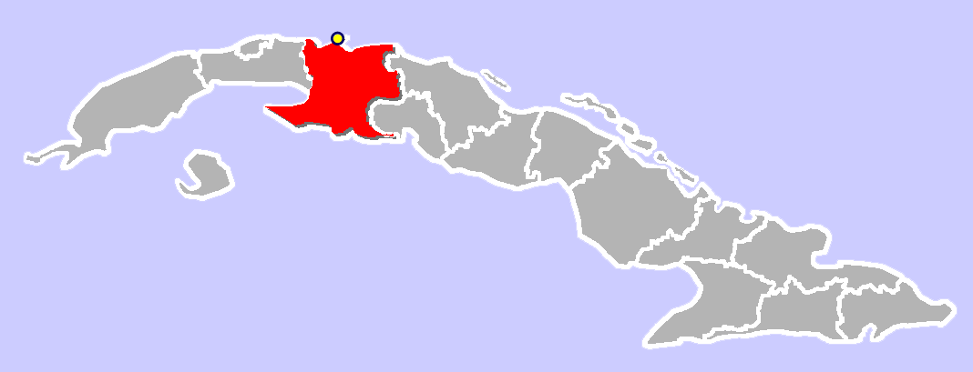 Location of Varadero, Cuba